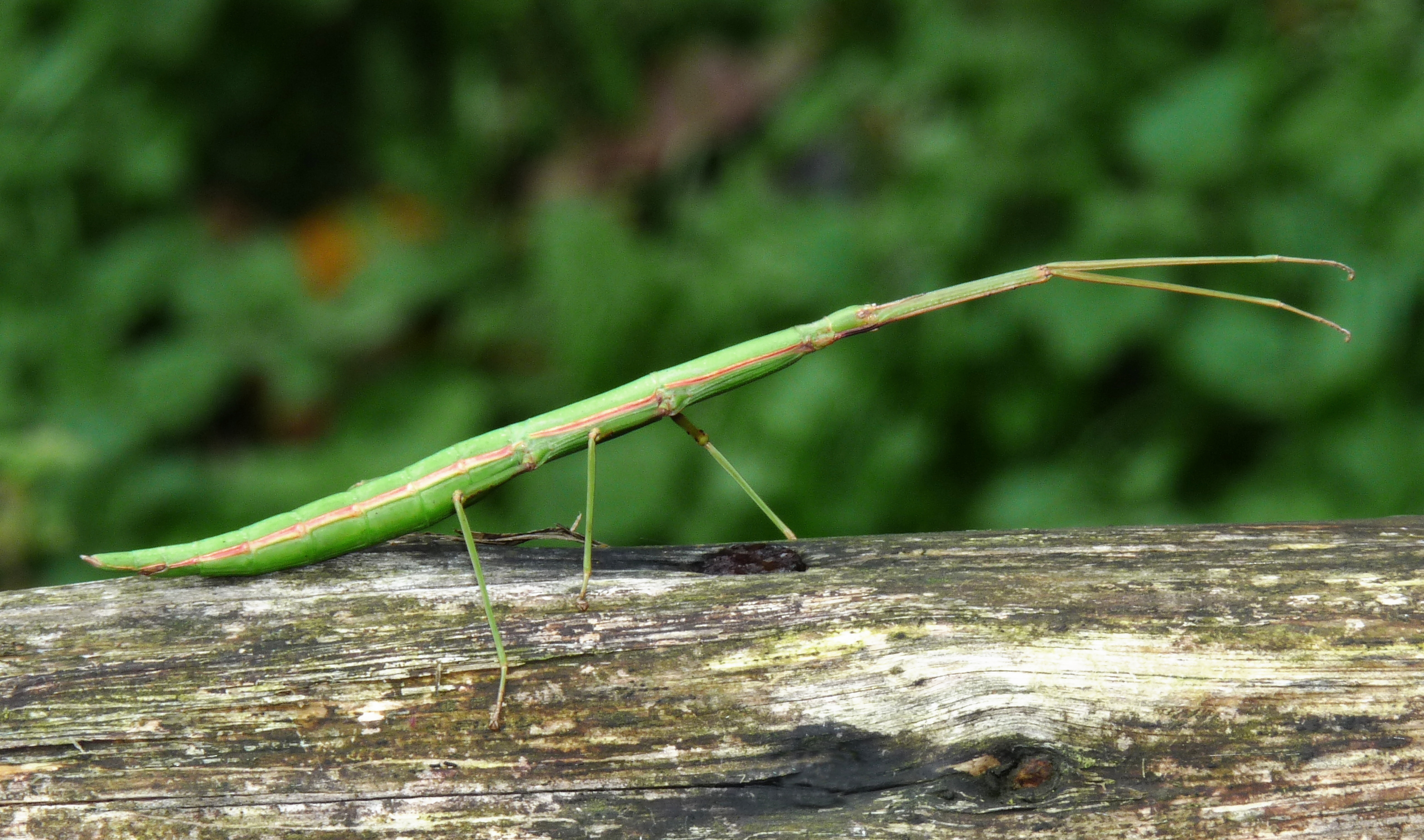 Bacillus rossius, near Livorno, Tuscany, Italy